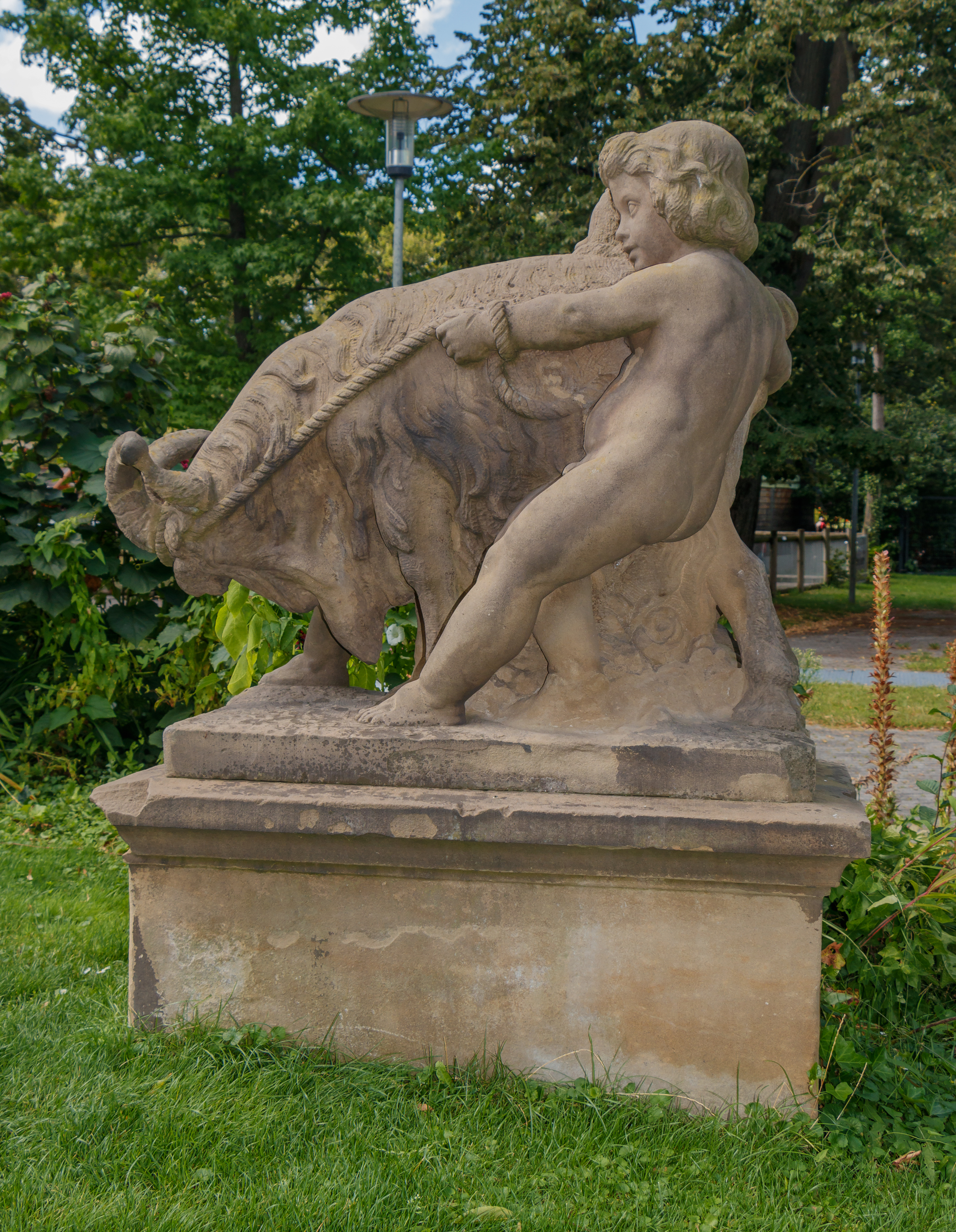 "Children group with goat" by Wilhelm Sauer (1916); Zoologischer Stadtgarten Karlsruhe, Karlsruhe, Germany.